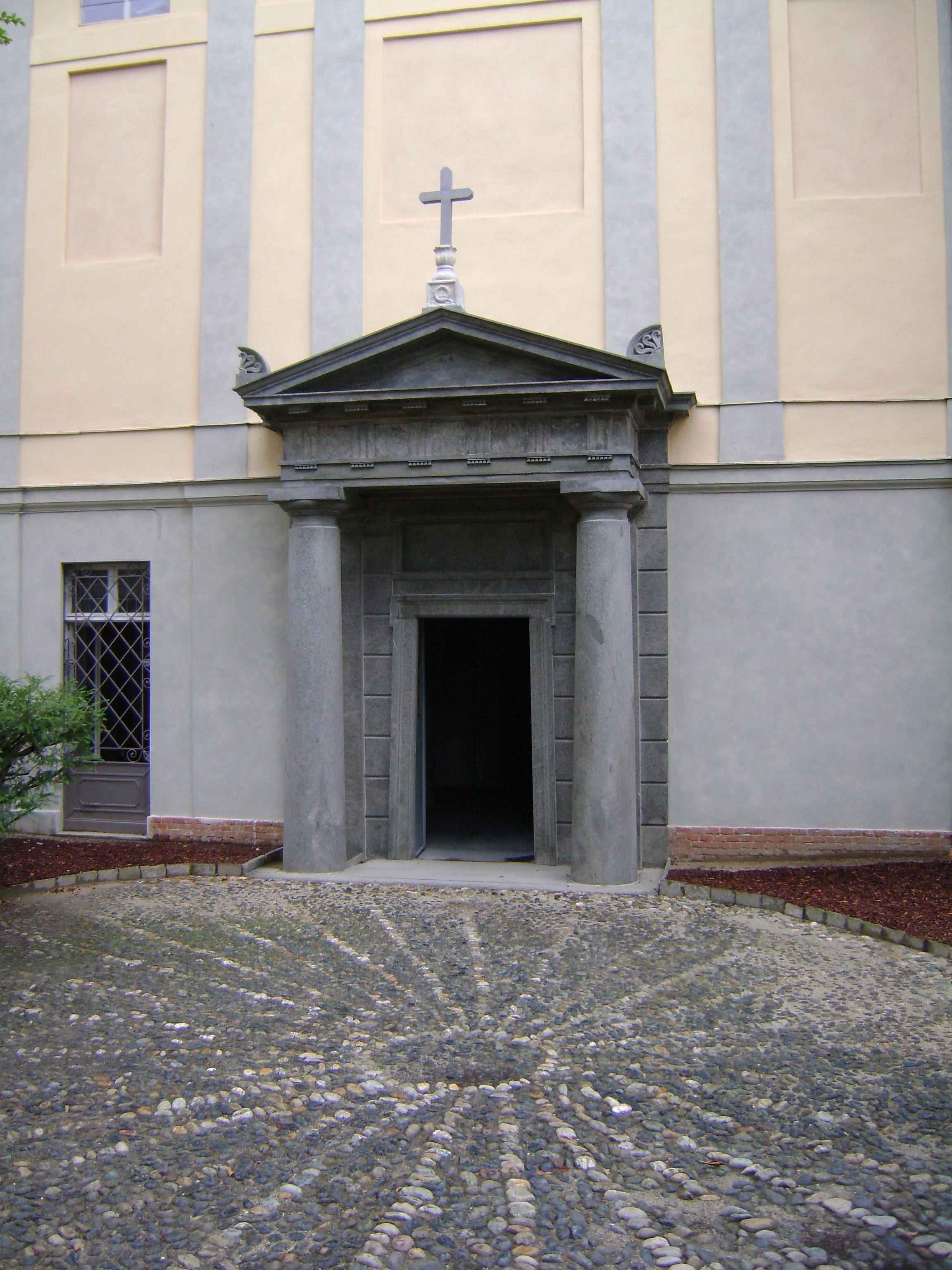 Benso di Cavour family tombs at Santena (Italy)